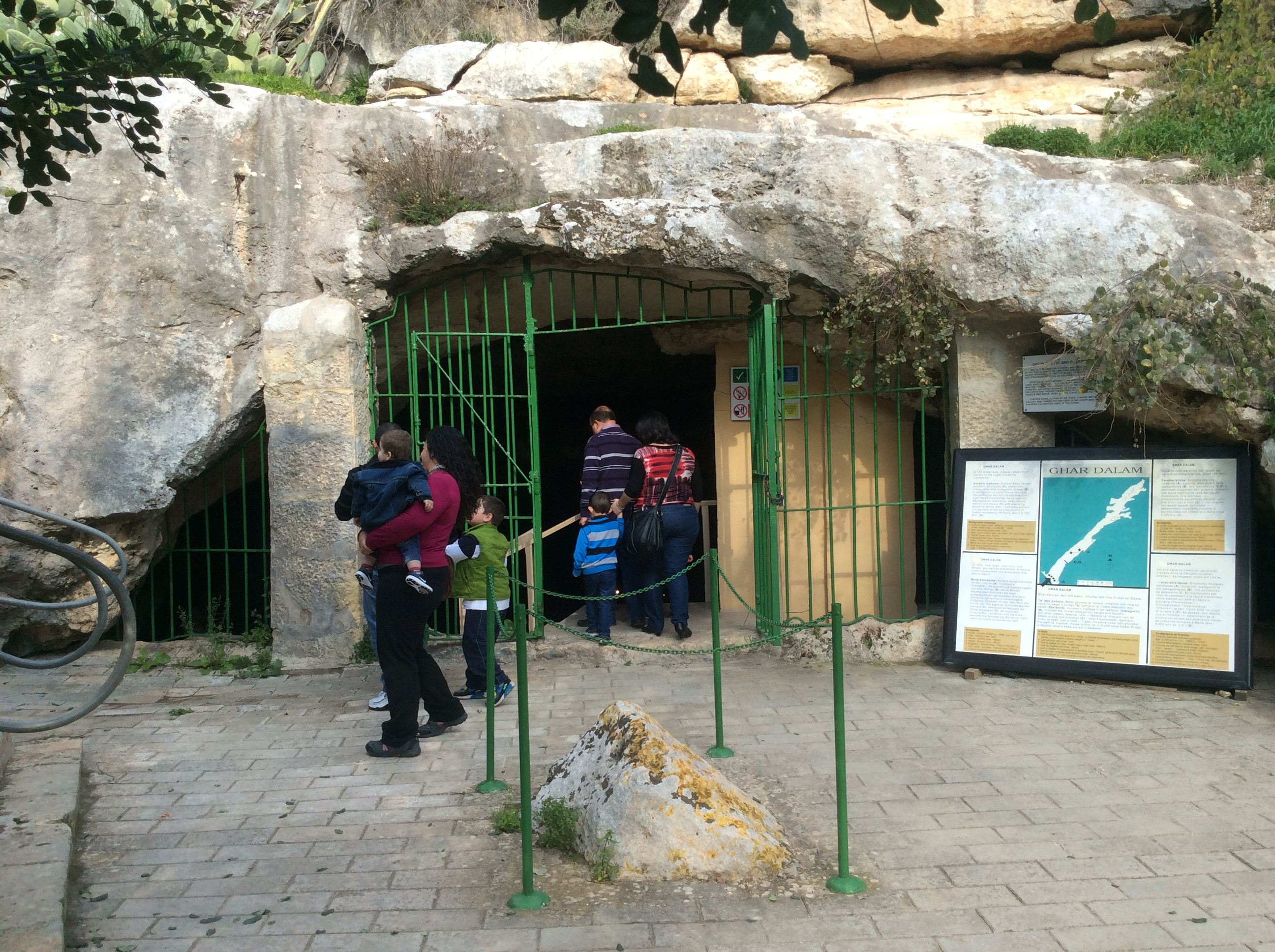 Għar Dalam Cave This media is about Maltese cultural property with inventory number 00029.